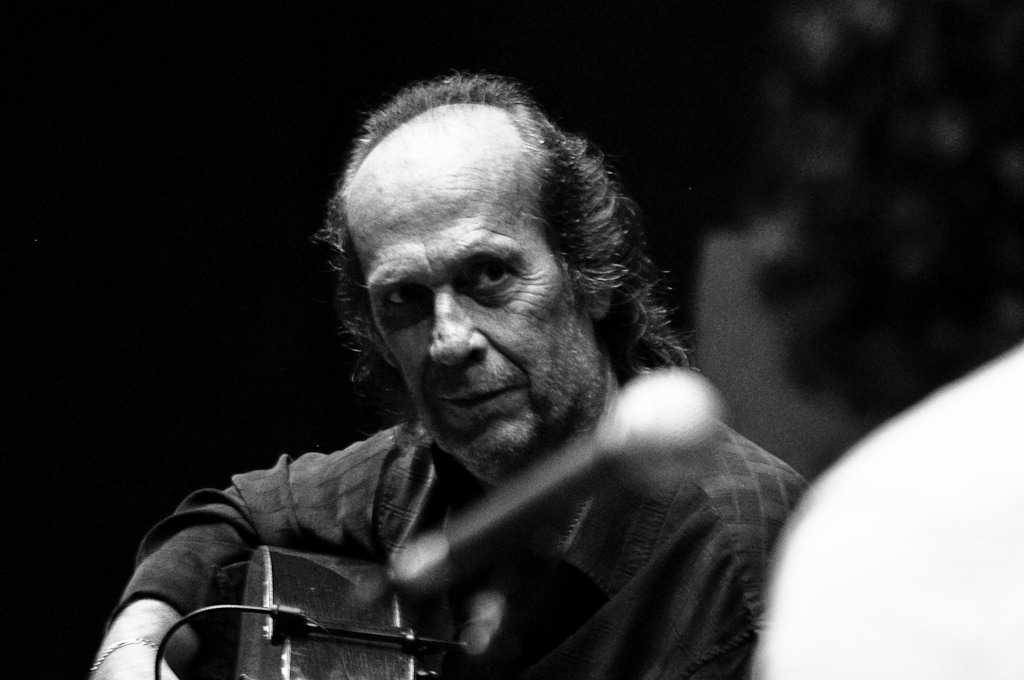 Spanish flamenco guitarist Paco de Lucia.